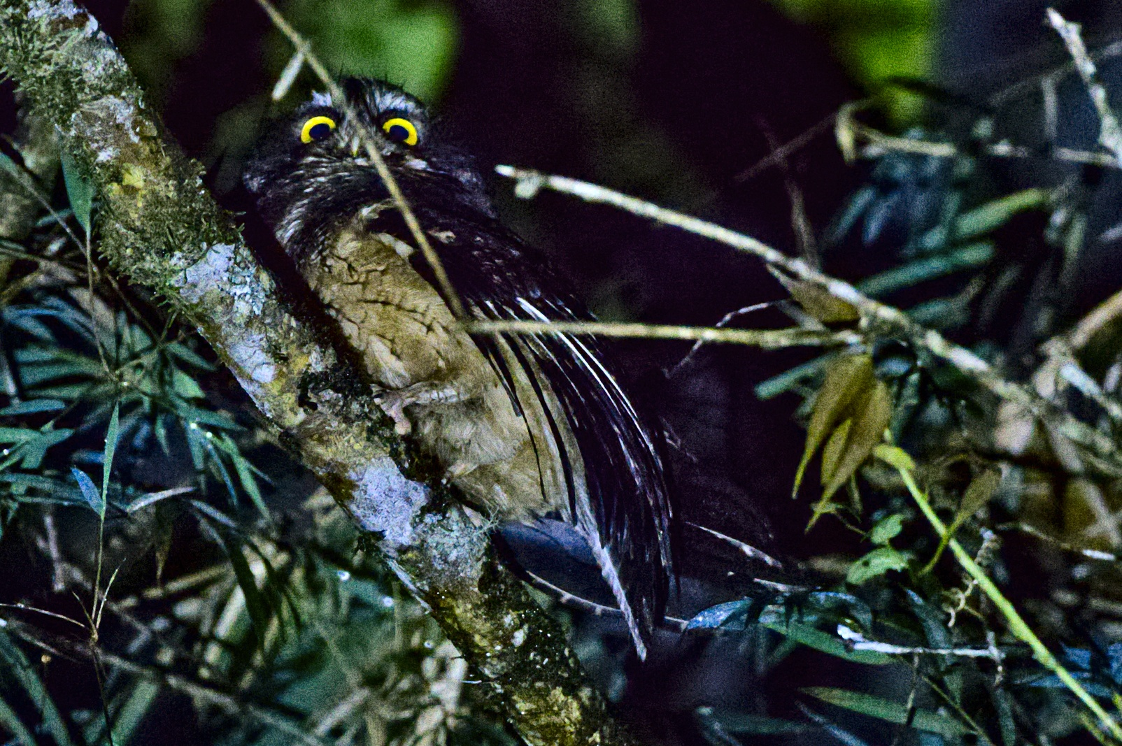 White-throated Screech-Owl perched in the early ours at Jardín, Antioquia, Colombia